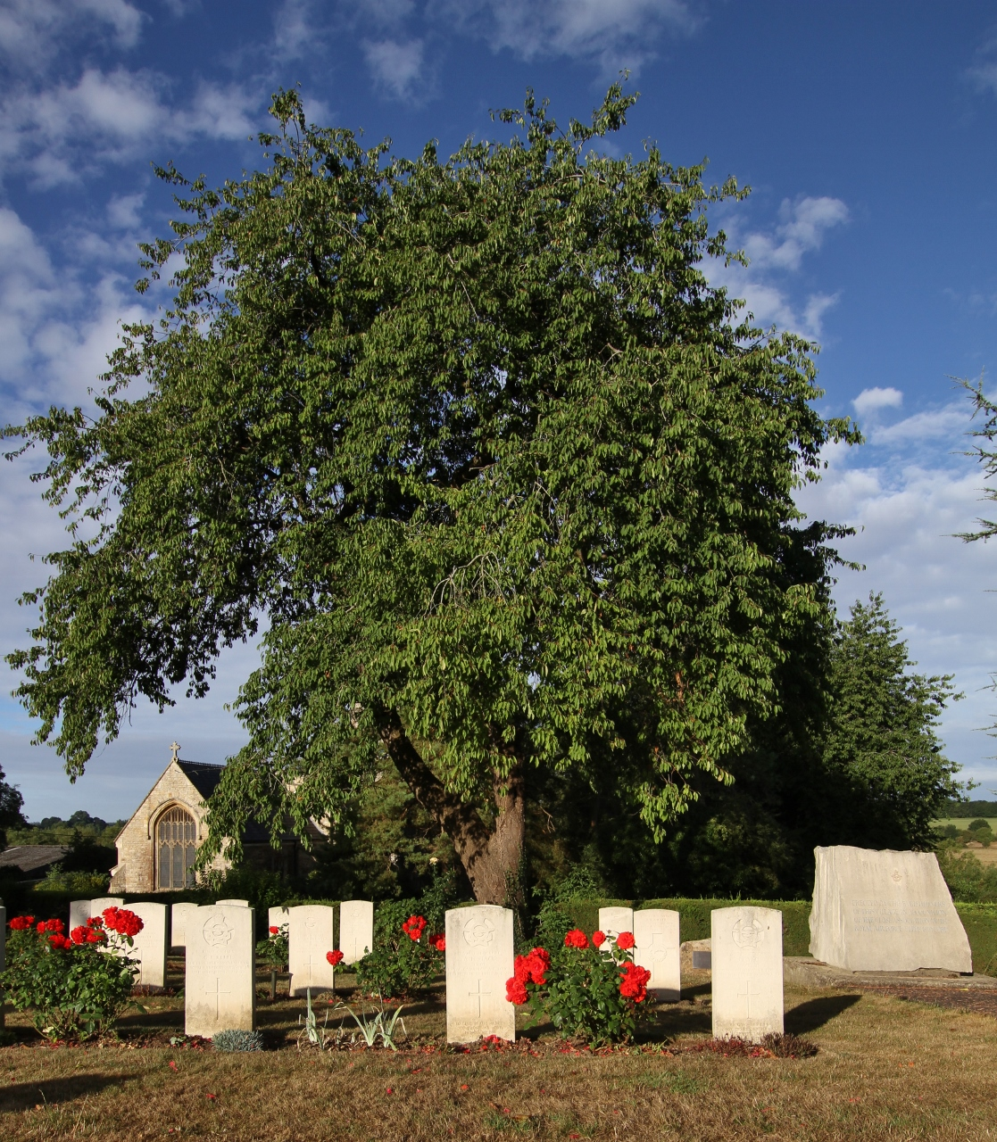 Some of the CWGC graves in Upper Heyford cemetery, Oxfordshire. In the front row are three RCAF airmen. From left to right: Plt Off (Wireless Operator/Air Gunner) Gordon Keele, who died on 13 March 1942, Sgt (Pilot) Arnold Stack, who died on 11 November 1941 and Sgt (Air Observer) John Yeo, who also died on 11 November 1941. On the right is the USAAF monument. On the left in the background is the chancel of All Saints' parish church.